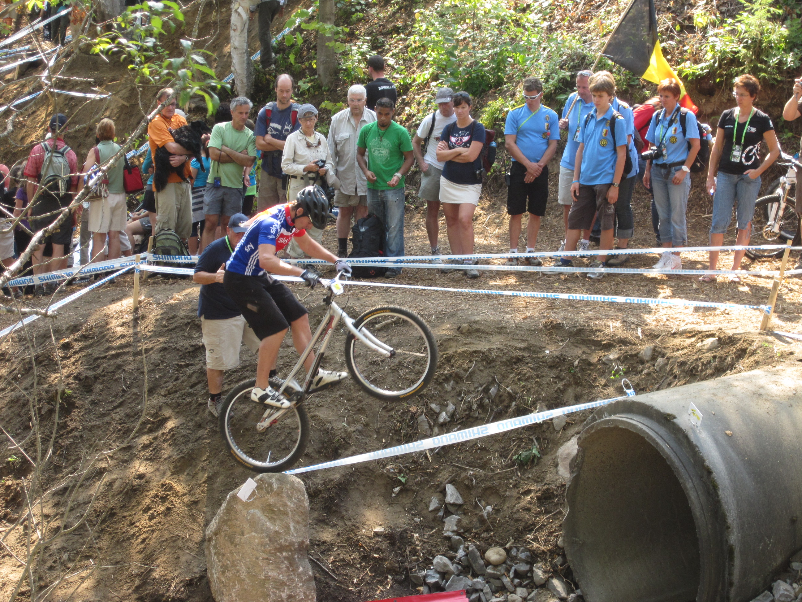 2010 UCI Mountain Bike & Trials World Championships - trials qualification